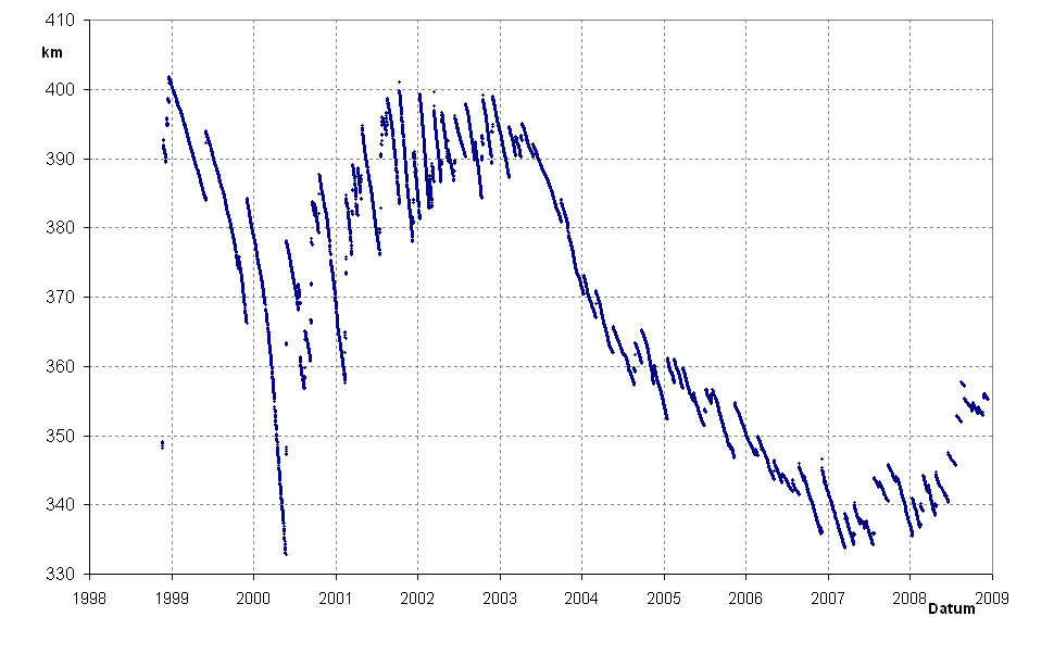 Mean altitude of the International Space Station from November 1998 until 2008